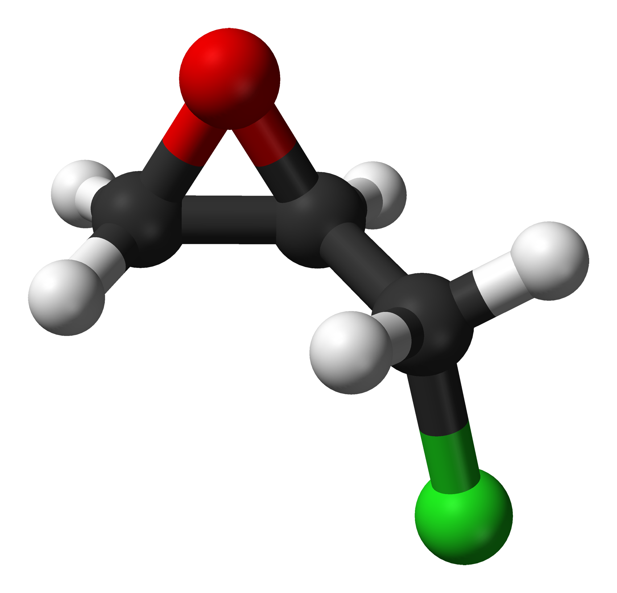 Ball-and-stick model of the gauche-II (g-II) conformer of the R enantiomer of the epichlorohydrin molecule, C3H5ClO. The g-II conformation is calculated to be the global minimum structure of epichlorohydrin, and predominates in CCl4 solution (but not in MeOH or DCM, where the g-I conformation is dominant). Colour code: Carbon, C: grey-black Hydrogen, H: white Chlorine, Cl: green Oxygen, O: red Conformation based on Phys. Chem. Chem. Phys. (2011) 13, 12517-12528 and Chirality (2002) 15, (S1) S143–S149. Structure calculated with Spartan Student 4.1, using the MP2 level of theory and the 6-311+G** basis set. Image generated in Accelrys DS Visualizer.